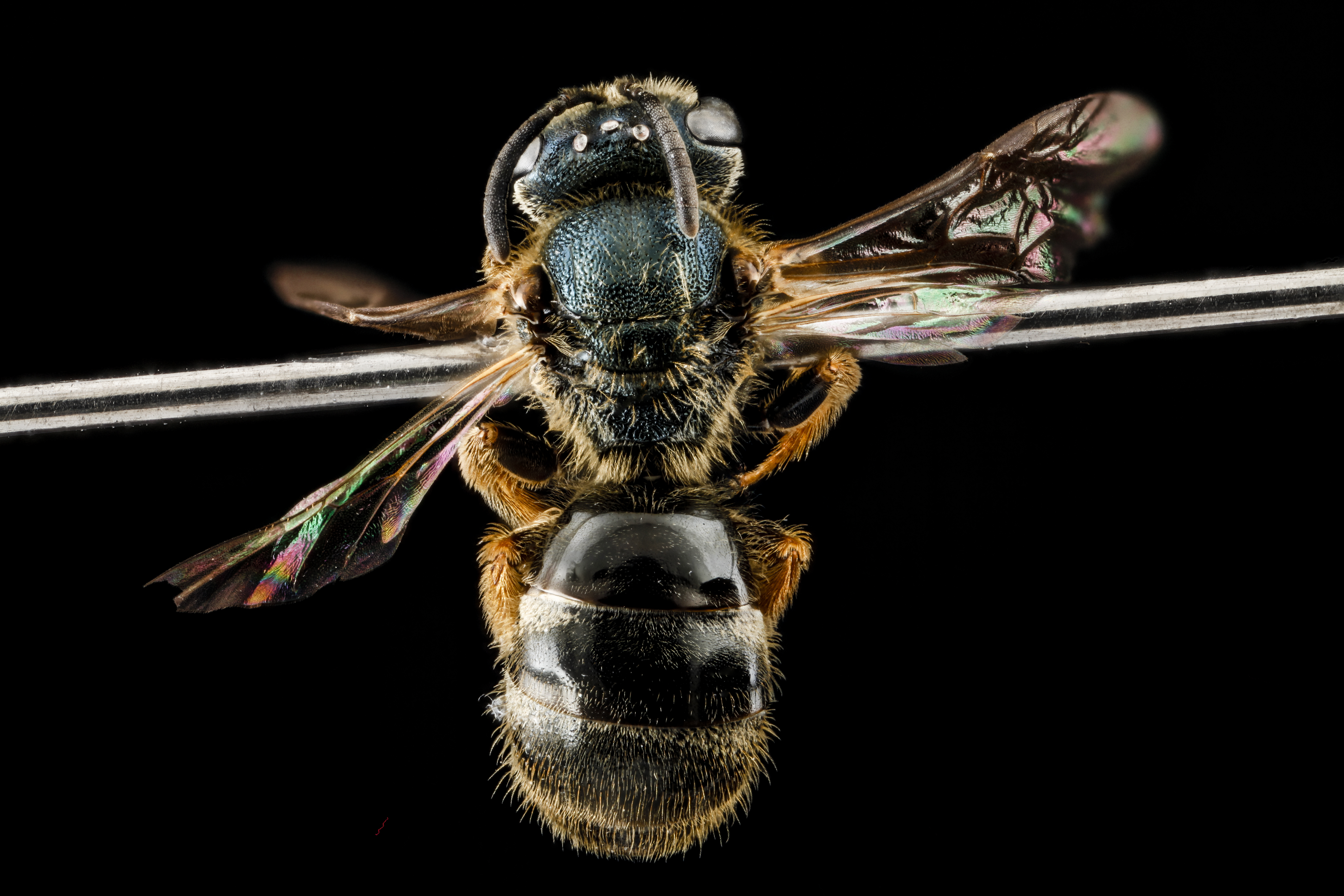 A Deep South bee I associate with piney woods on the coastal plain. Rather Herc for a Lasioglossum, but the shade of blue and the dark orangish legs help direct you towards the identification of this species. this one from mysterious and rich in odd bees Cumberland Island, Georgia. Photoshopping by Thistle Droege and Photograph by Lisa Murray. Photography Information: Canon Mark II 5D, Zerene Stacker, Stackshot Sled, 65mm Canon MP-E 1-5X macro lens, Twin Macro Flash in Styrofoam Cooler, F5.0, ISO 100, Shutter Speed 200